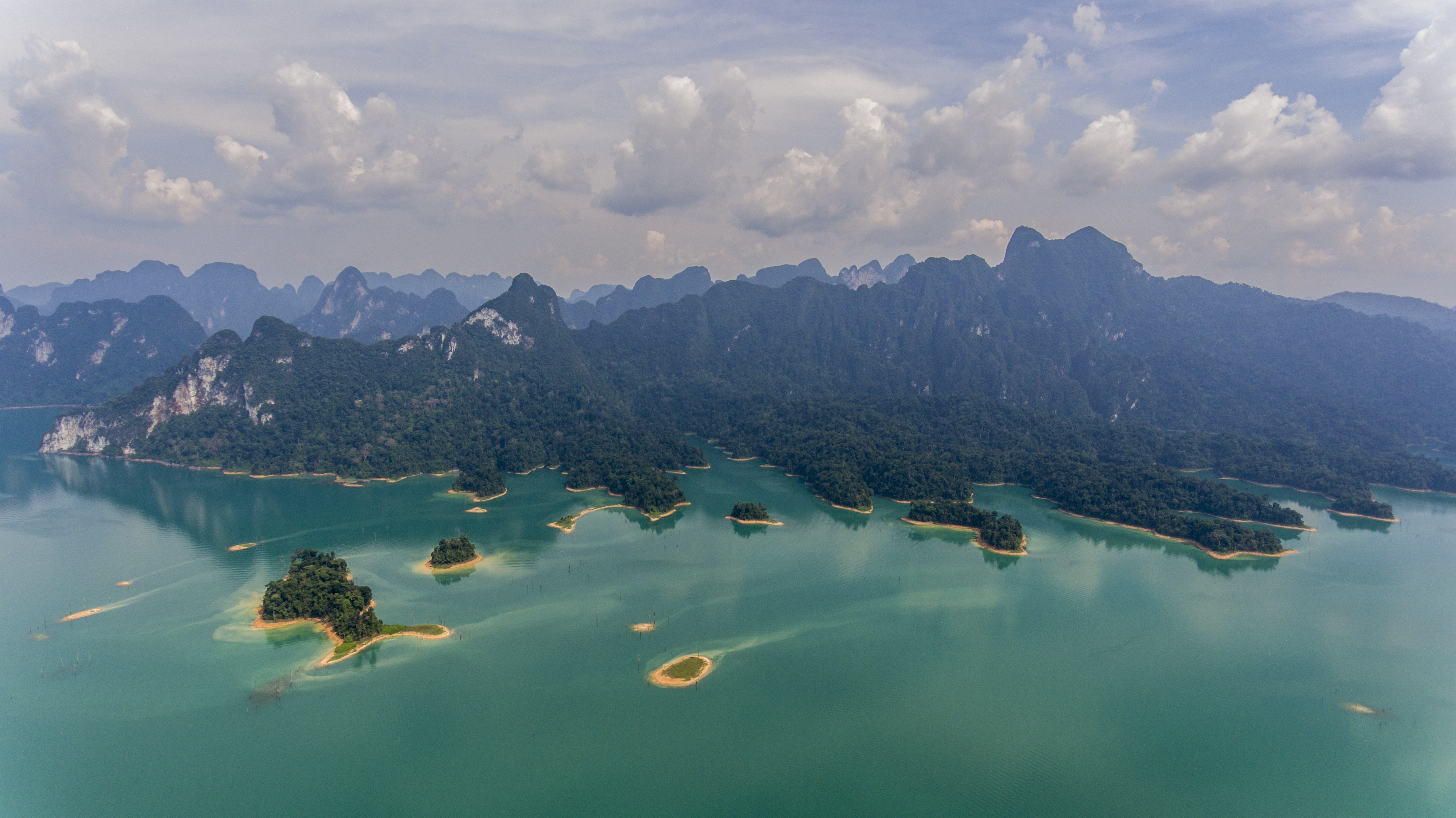 Ratchaprapha reservoir, Khao Sok National Park